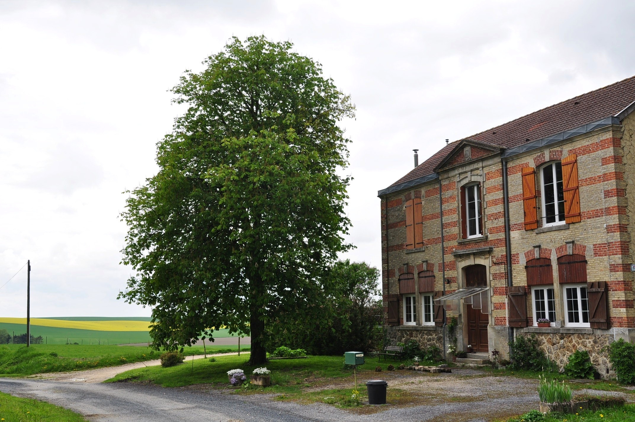 Former town hall in Élise (municipality of Élise-Daucourt, canton Sainte-Ménehould, arrondissement Sainte-Ménehould, Marne department, Champagne-Ardenne region, France).